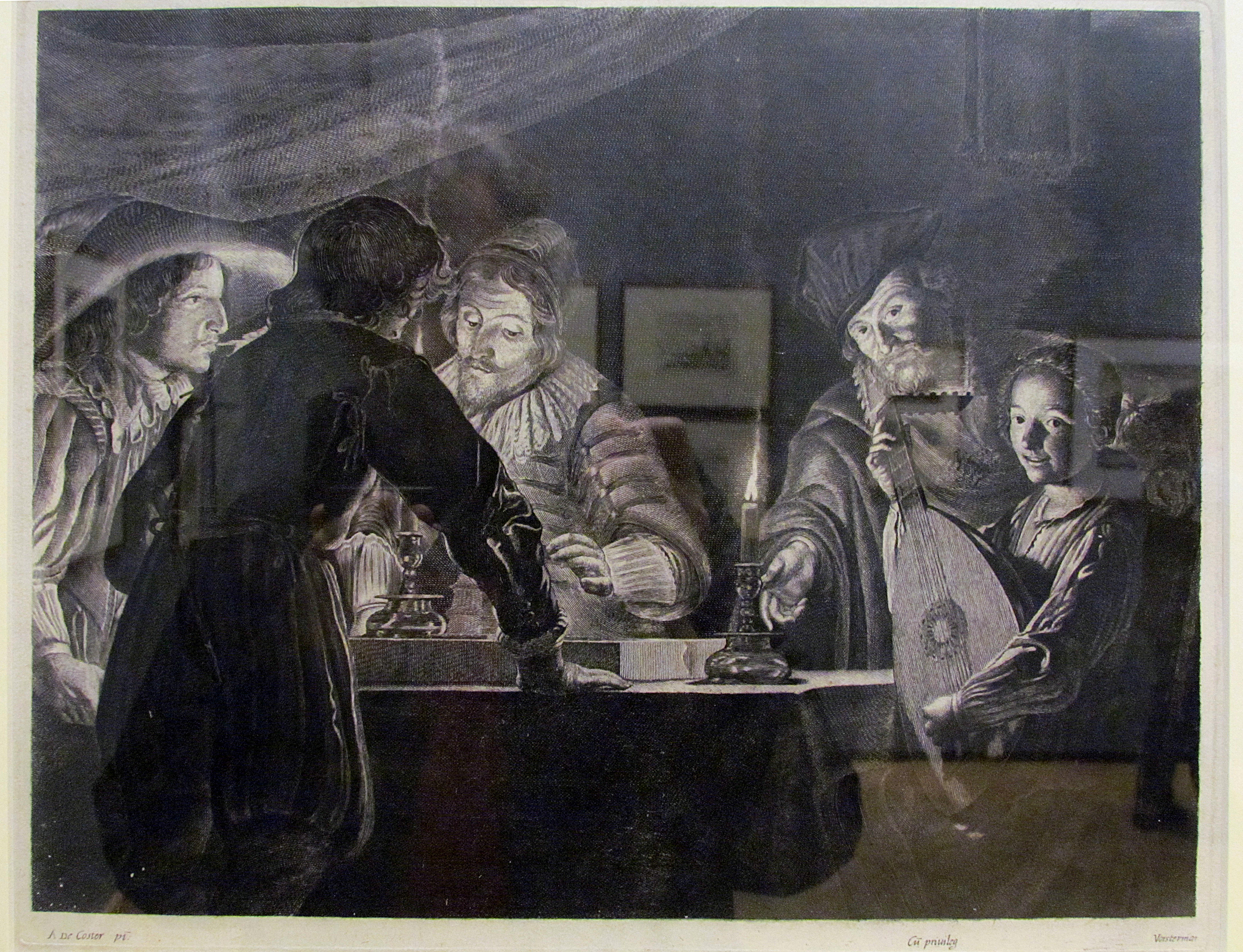 Lucas Vorsterman I, The backgammon-players, 1630, National Museum of Serbia